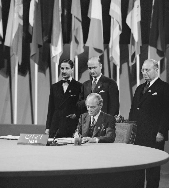 Mostafa Adl, signing the UN charter in San Francisco conference